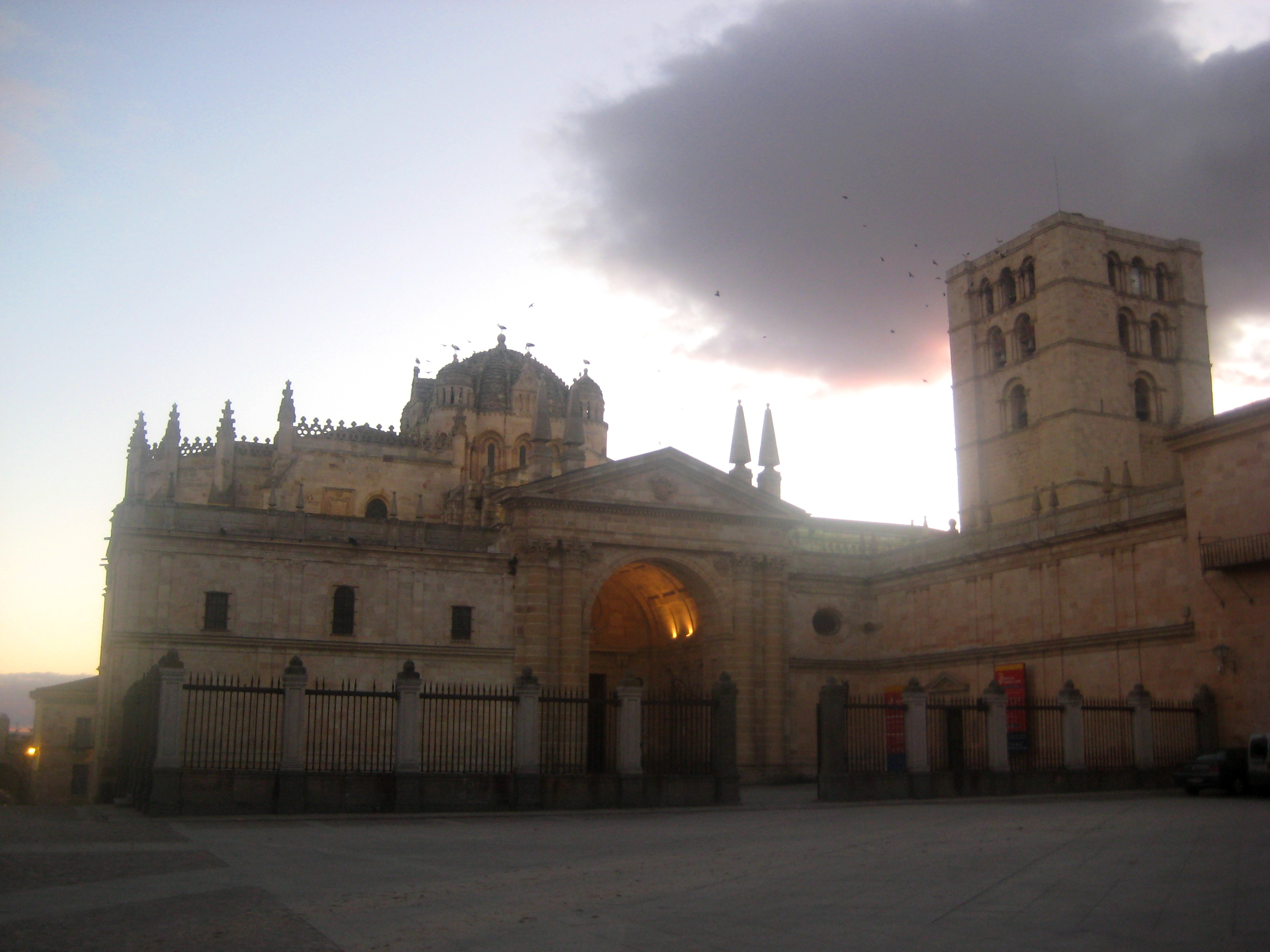 Main façade of the Cathedral of Zamora, Spain.